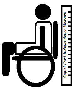 Spinal cord independence measure is a measurement tool for determining the level of function in spinal cord injury.